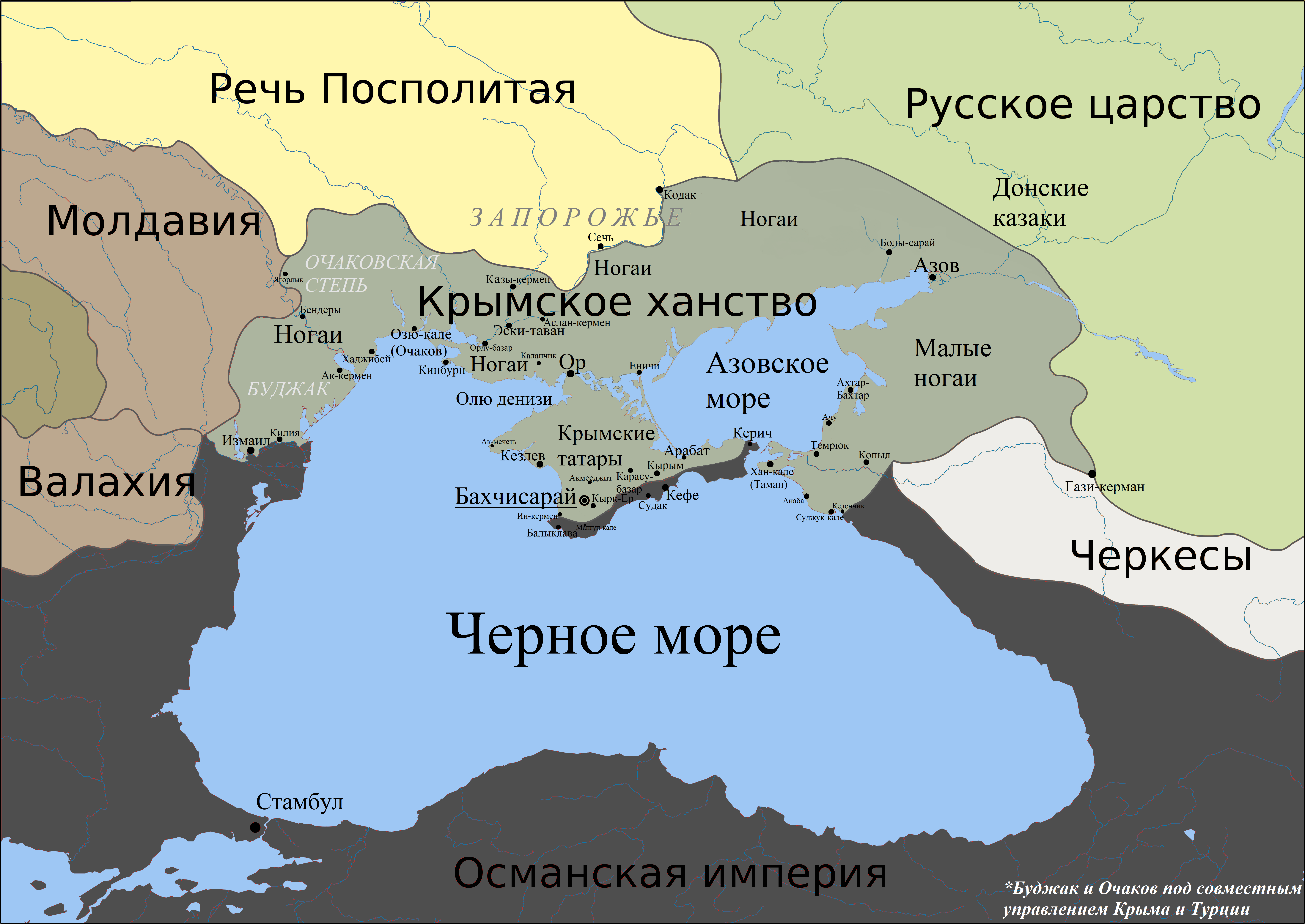 Political map of Black Sea region around 1600.